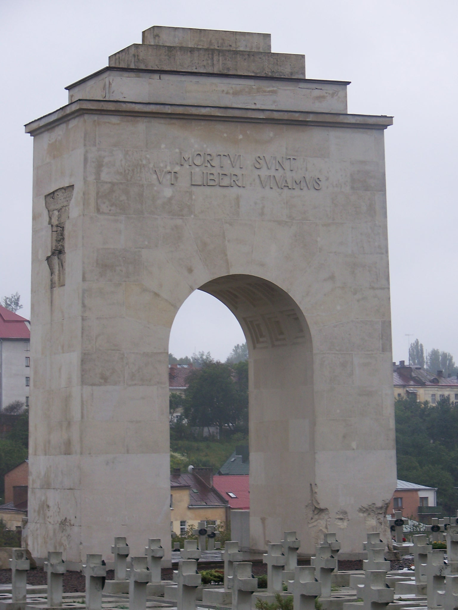 Cemetery of the Defenders of Lviv, Monument of Glory